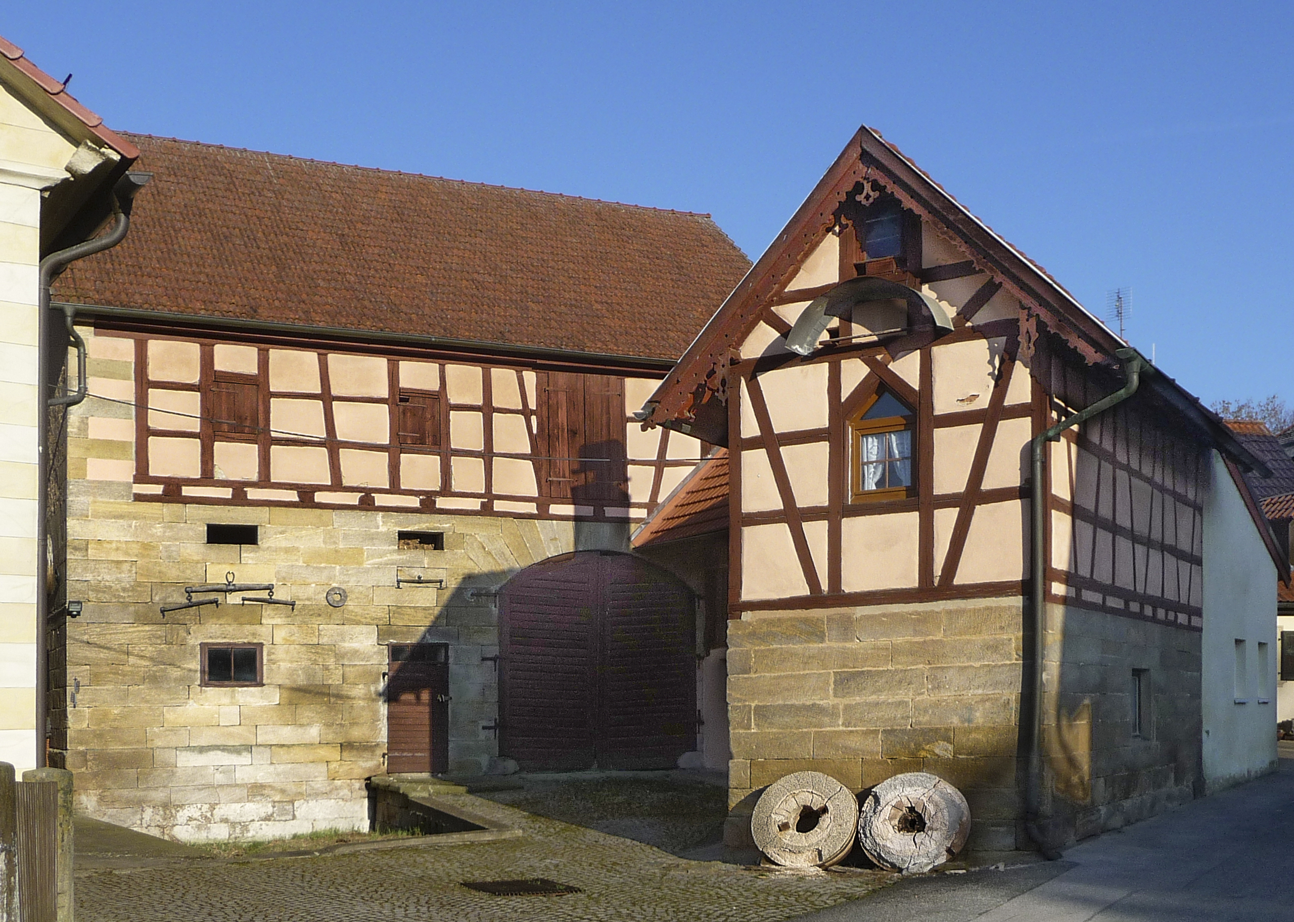 Burgellern